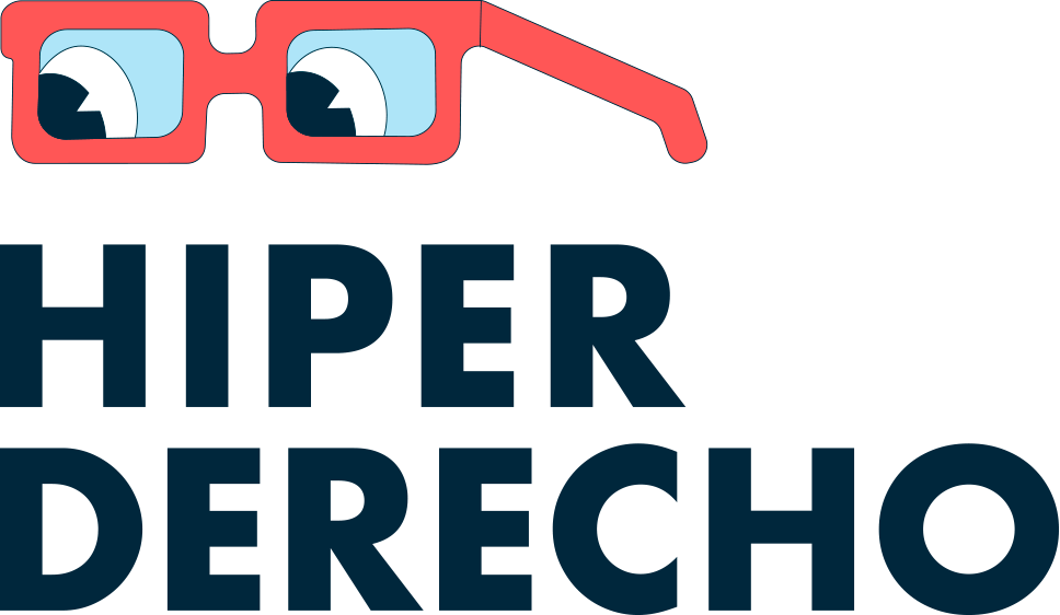 Hiperderecho logo featuring the name of the organization and a cartoon drawing of a pair of reading glasses